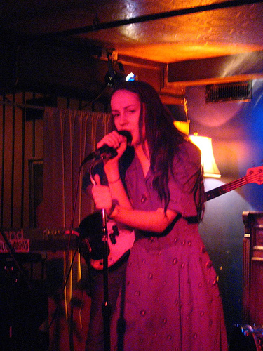 Jena "Gretchen from Donnie Darko" Malone downstairs at Union Hall